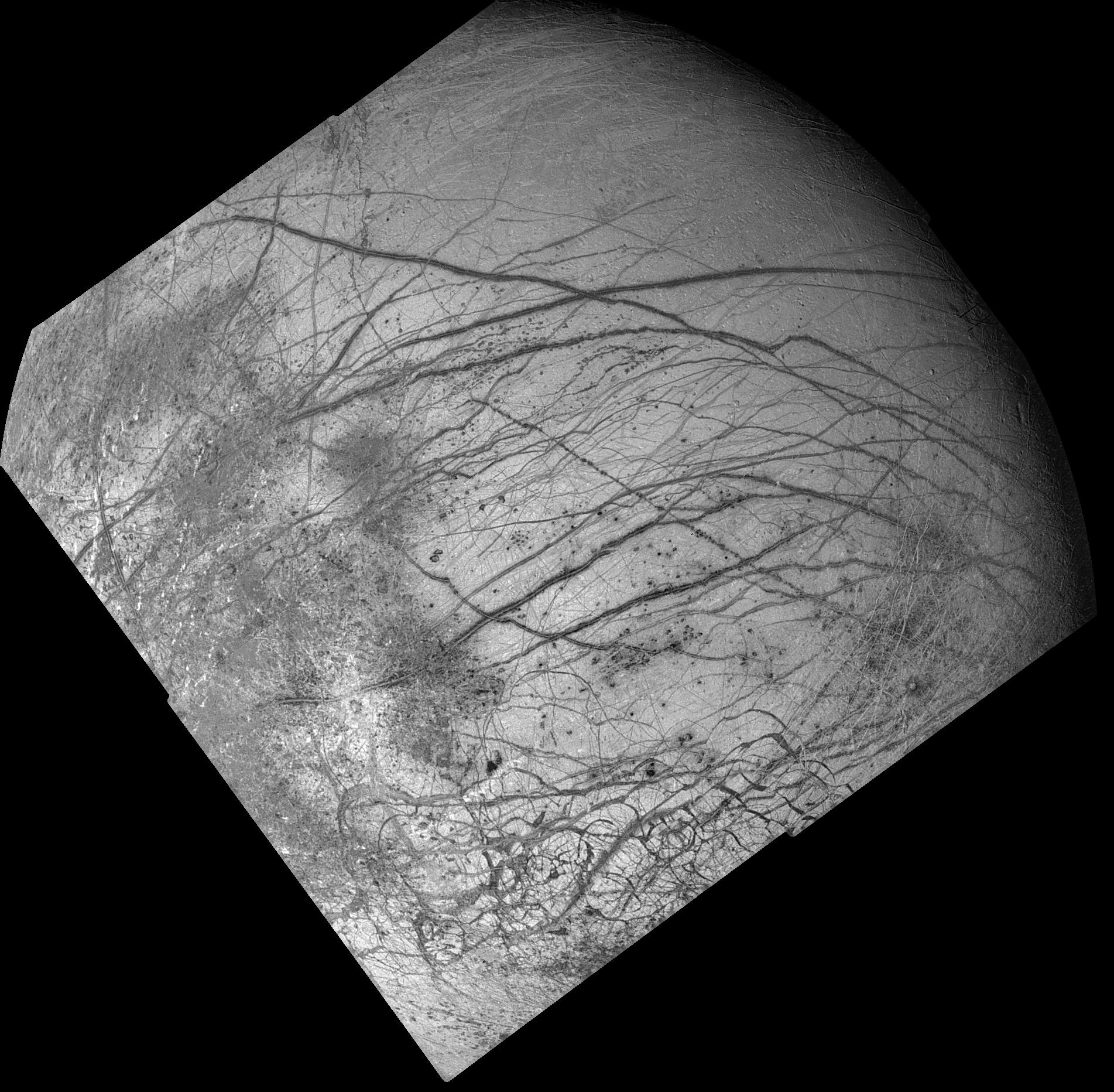 Dark crisscrossing bands on Jupiter's moon Europa represent widespread disruption from fracturing and the possible eruption of gases and rocky material from the moon's interior in this four-frame mosaic of images from NASA's Galileo spacecraft. These and other features suggest that soft ice or liquid water was present below the ice crust at the time of disruption. The data do not rule out the possibility that such conditions exist on Europa today. The pictures were taken from a distance of 156,000 kilometers (about 96,300 miles) on June 27, 1996. Many of the dark bands are more than 1,600 kilometers (1,000 miles) long, exceeding the length of the San Andreas fault of California. Some of the features seen on the mosaic resulted from meteoritic impact, including a 30- kilometer (18.5 mile) diameter crater visible as a bright scar in the lower third of the picture. In addition, dozens of shallow craters seen in some terrains along the sunset terminator zone (upper right shadowed area of the image) are probably impact craters. Other areas along the terminator lack craters, indicating relatively youthful surfaces, suggestive of recent eruptions of icy slush from the interior. The lower quarter of the mosaic includes highly fractured terrain where the icy crust has been broken into slabs as large as 30 kilometers (18.5 miles) across. The mosaic covers a large part of the northern hemisphere and includes the north pole at the top of the image. The sun illuminates the surface from the left. The area shown is centered on 20 degrees north latitude and 220 degrees west longitude and is about as wide as the United States west of the Mississippi River. The Galileo mission is managed by NASA's Jet Propulsion Laboratory.